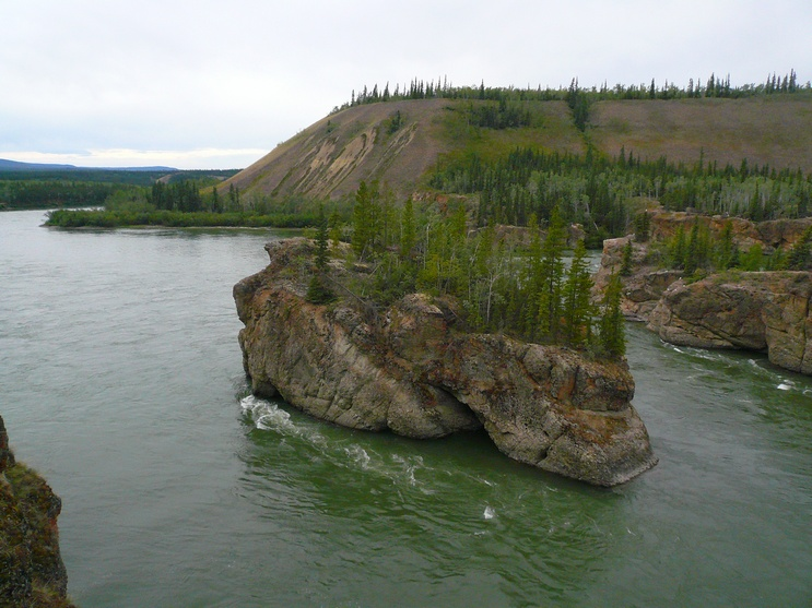 Five Finger Rapids, Yukon, Canada